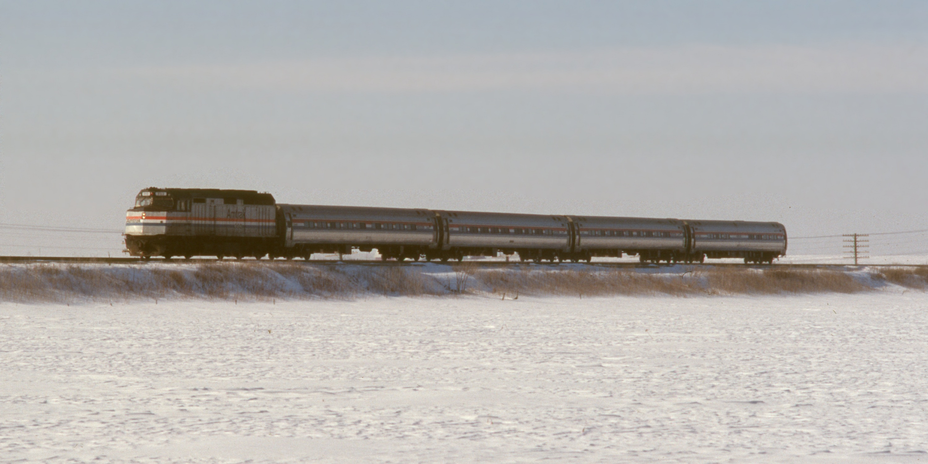 The Illini in Gilman, Illinois in February 1989